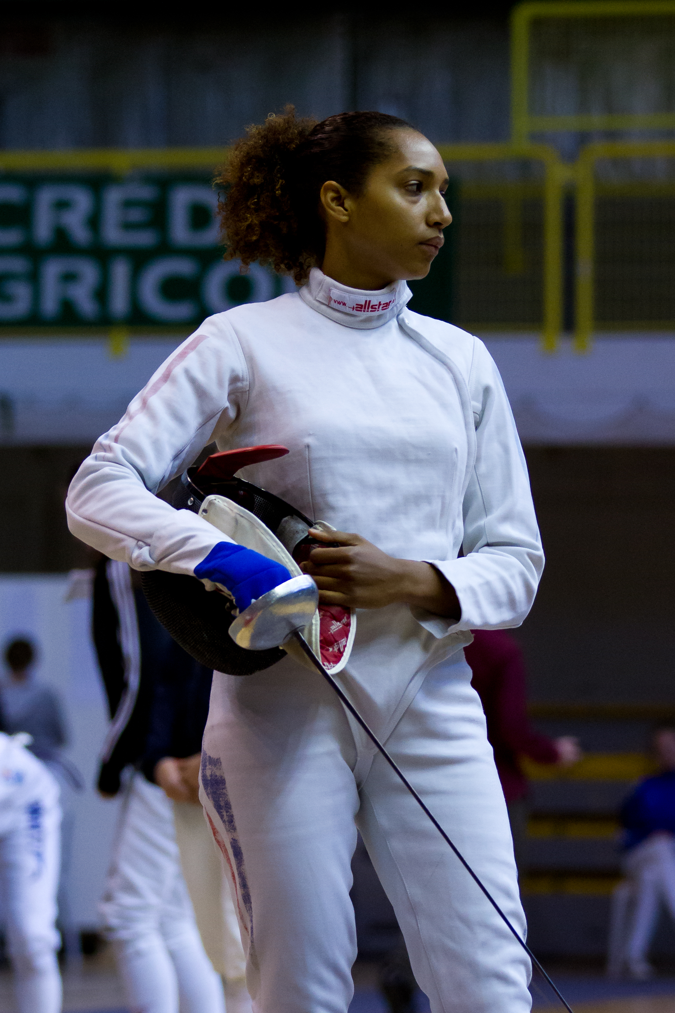 Marysa Baradji-Duchêne during the group stage of the Marcel Dutot tournament (national) in Toulouse on May 5th, 2013.